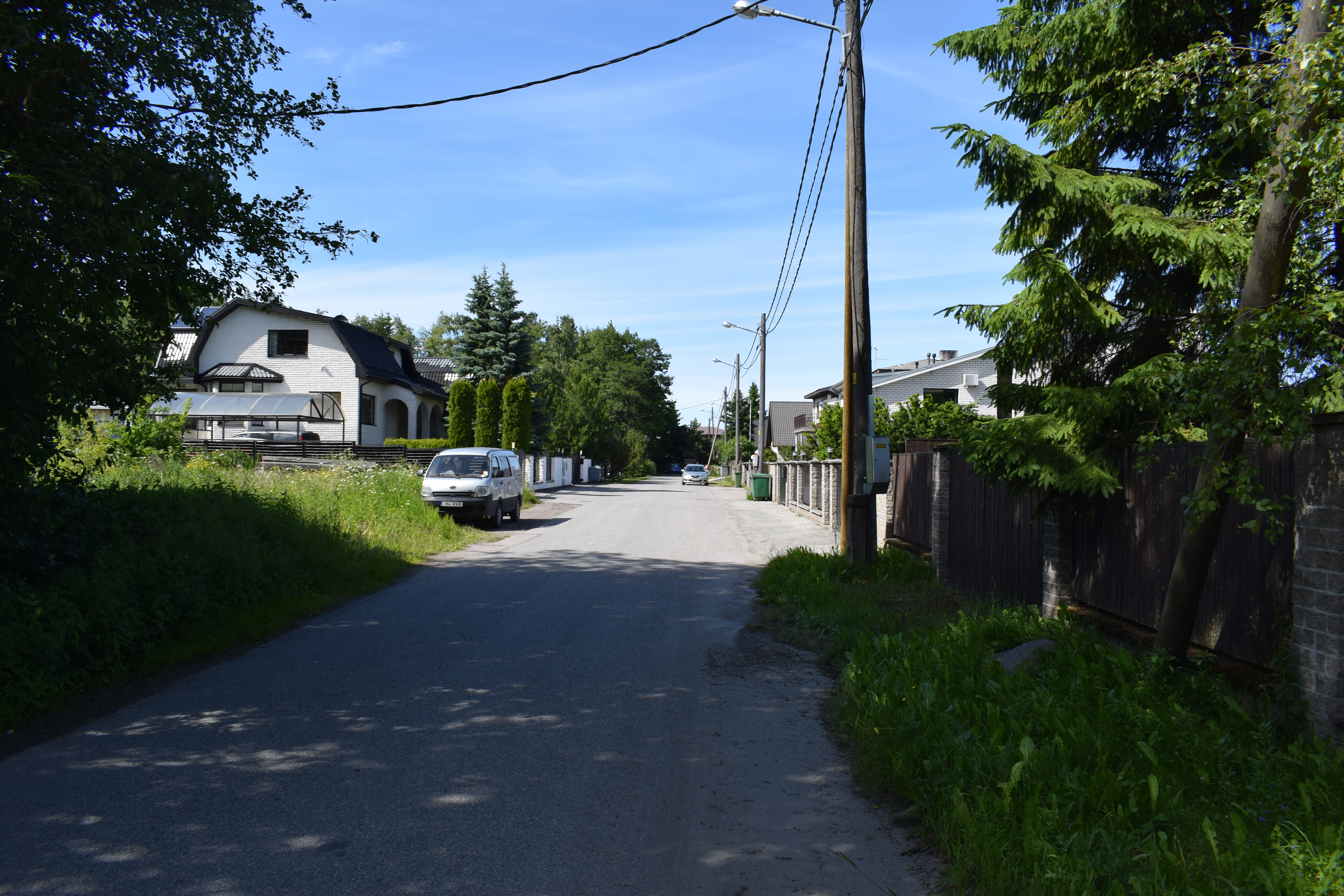 Mardipere street